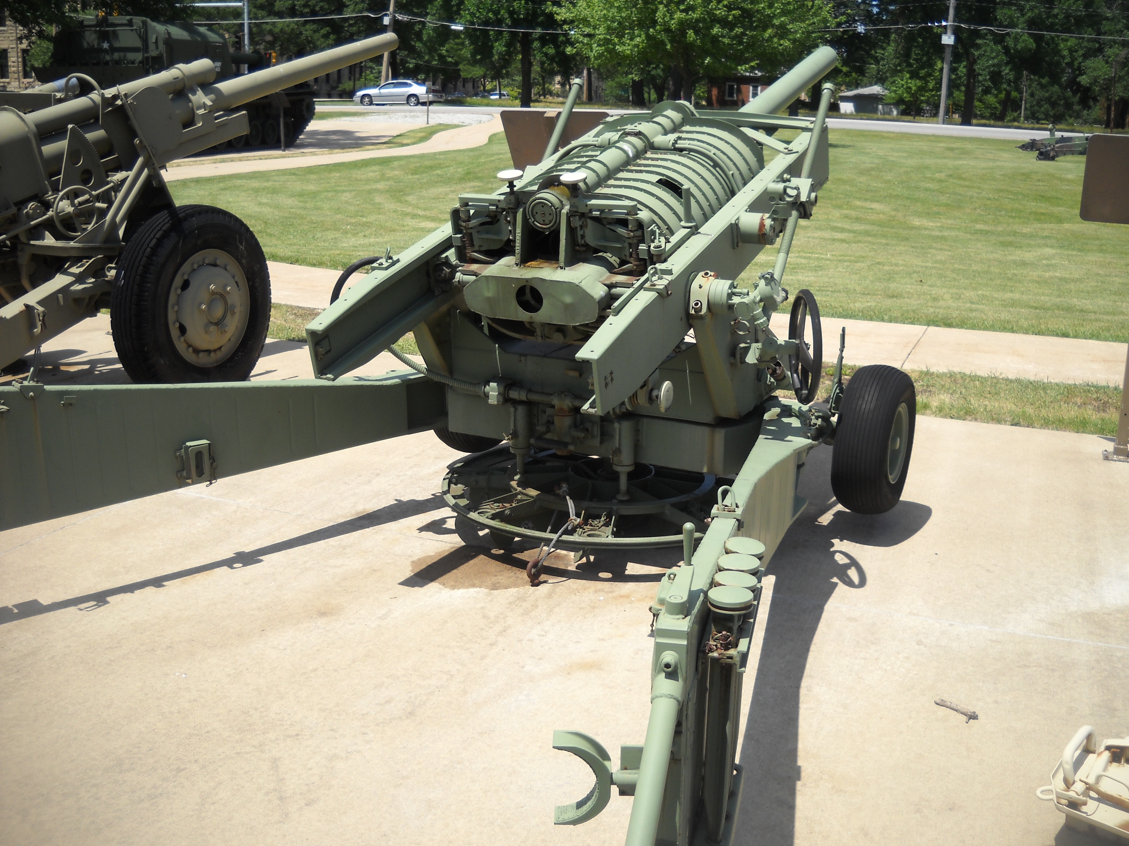 A view of the XM70E2 towed rocket launcher from the rear, showing the breach, towing mechanism, etc.